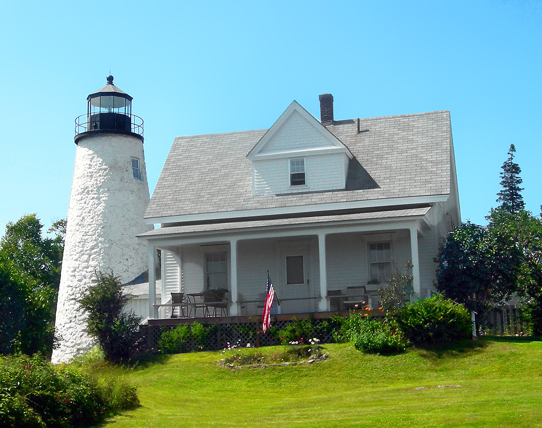 Dice Head Light, Castine, ME (Photograph and digital illustration made therefrom by the uploader, Centpacrr)